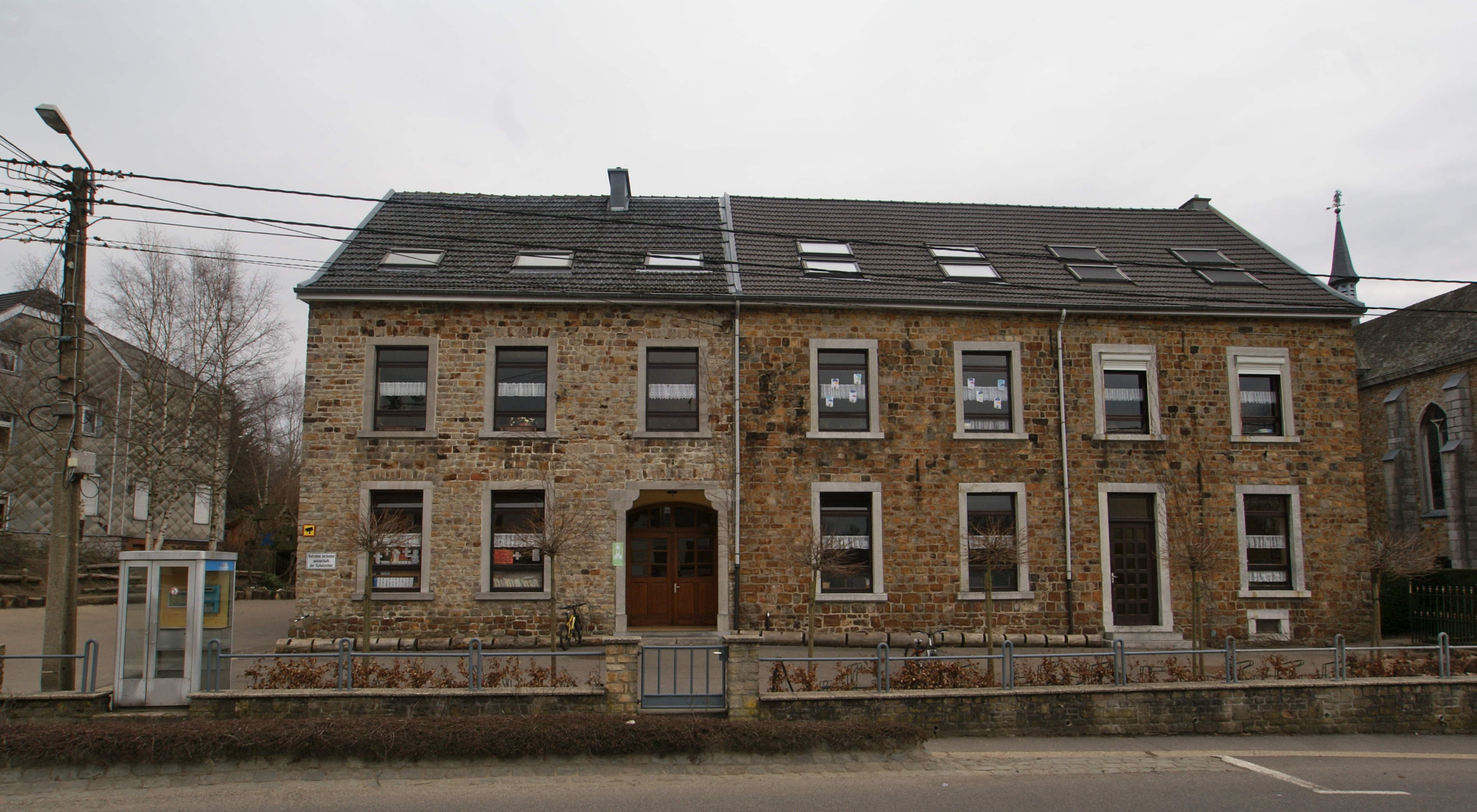 Hauset (Belgium): School